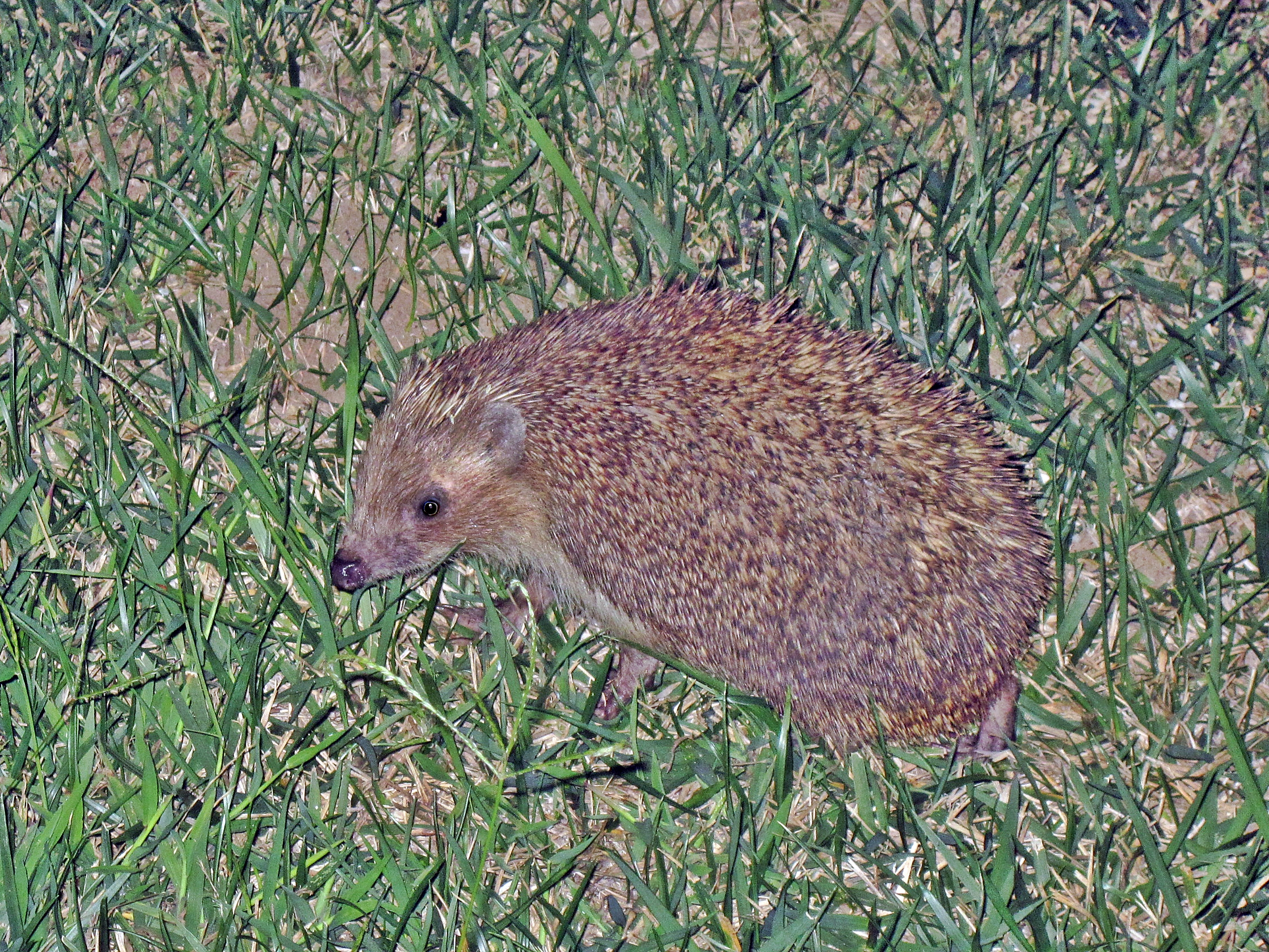 Erinaceus roumanicus (Northern white-breasted hedgehog),Skala Kalloni, Lesbos, Greece